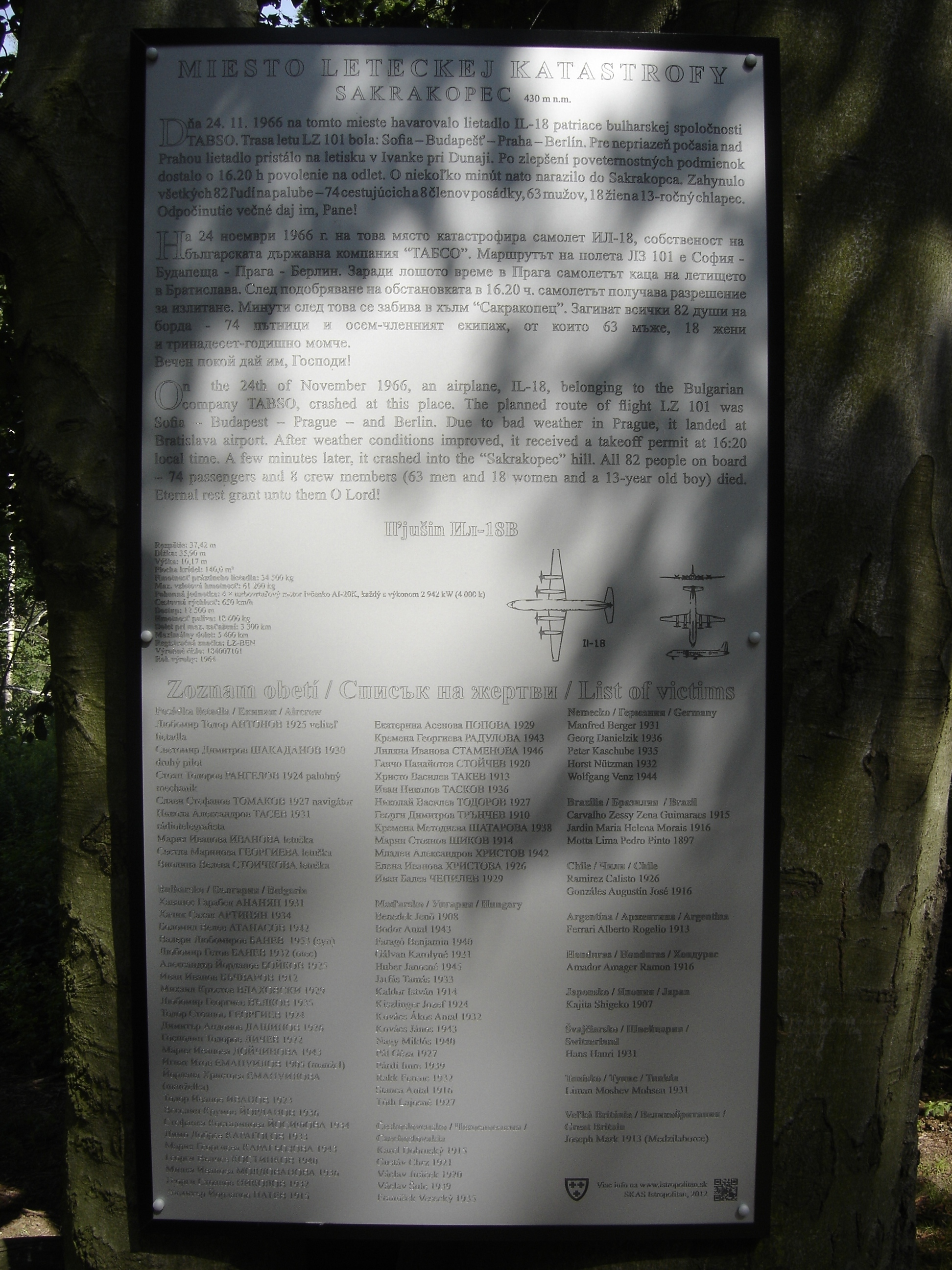 Sakrakopec - the site of the air crash (24/11/1966), Slovakia